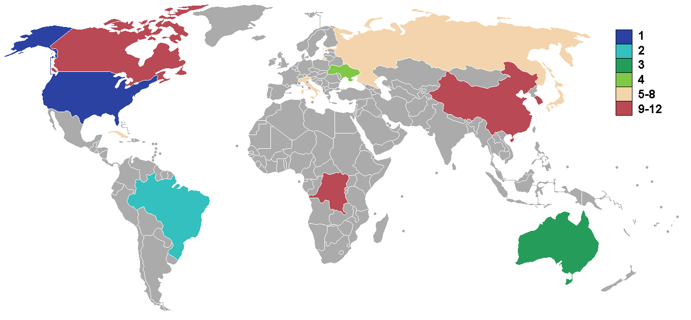 Final finishing places on Basketball at the 1996 Summer Olympics - Women's basketball.